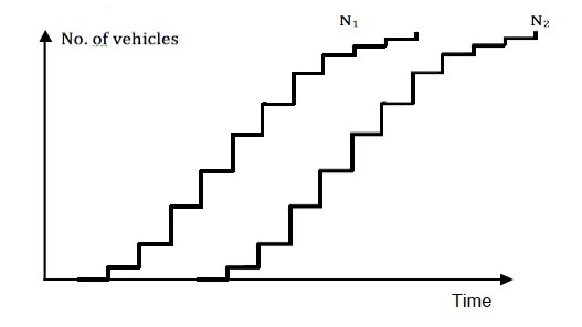 A step cumulative count curve. This is what would be obtained if real-life data would be plotted.